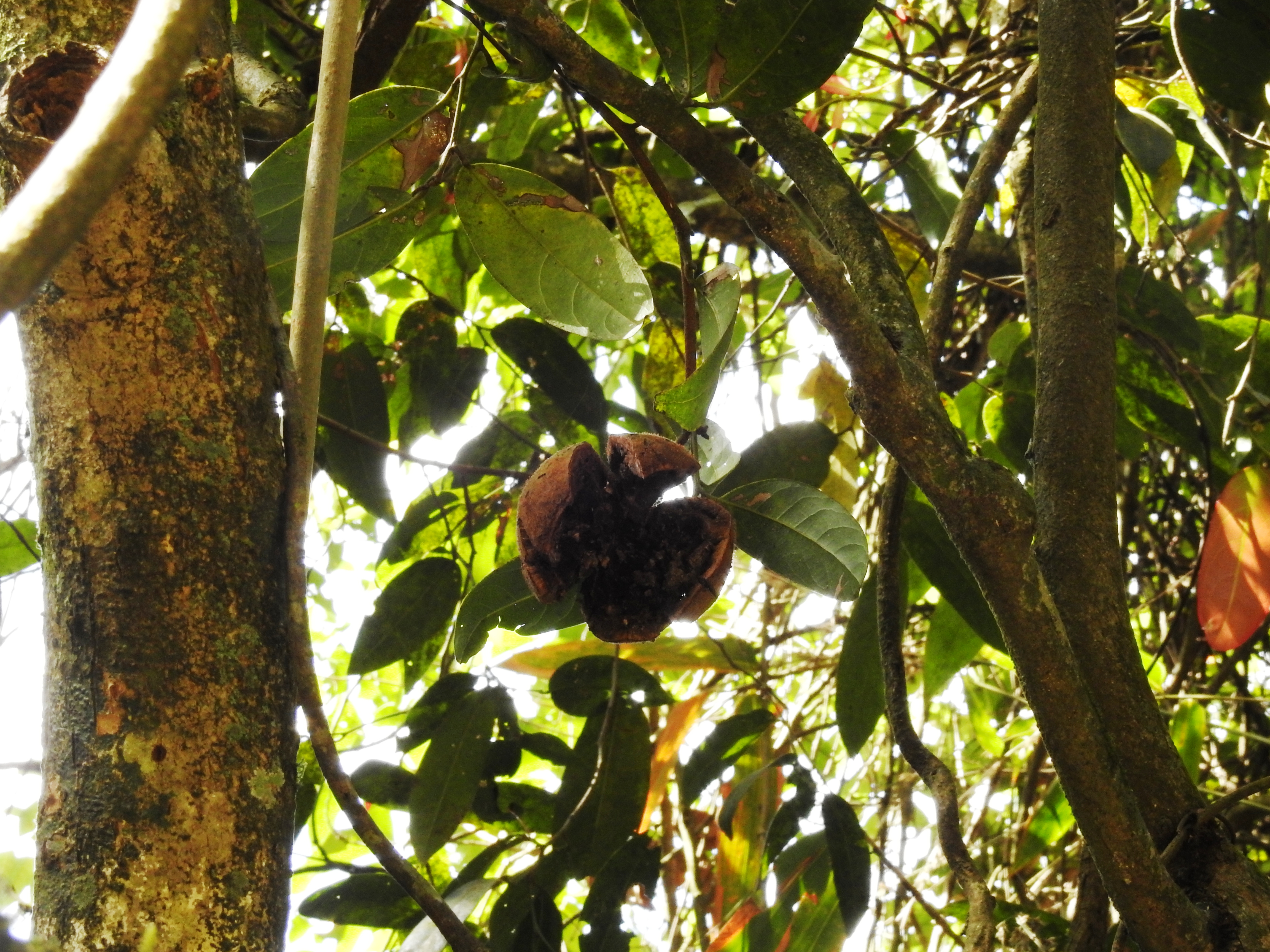 A dehisced fruit of a Hydnocarpus alpina tree in the Anamalai Hills